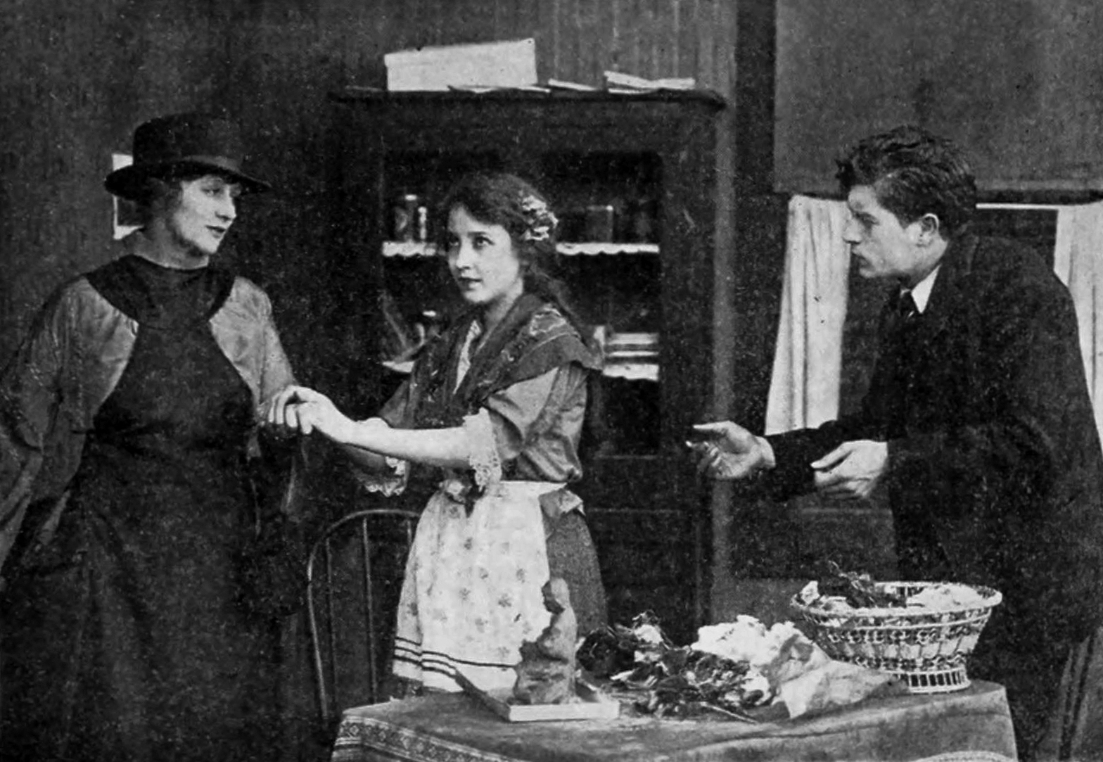 Cover of Moving Picture World